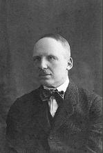 Jaroslav Bakeš